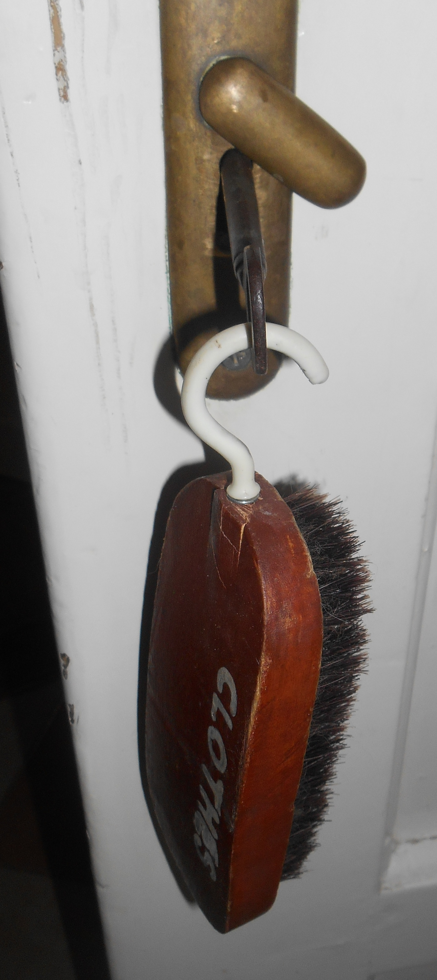 A clothes brush hanging on a bathrdom door, inscribed as such for its specific use